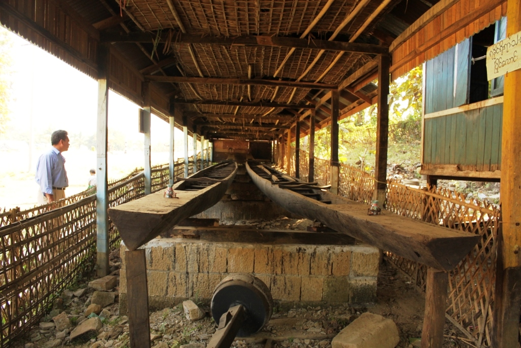 those are 12Lan (apx: 1Lan=1M) Arakanese traditional racing boats.မြန်မာဘာသာ: ရခိုင်ရိုးရာ ၁၂လံ ပြိုင်လောင်း